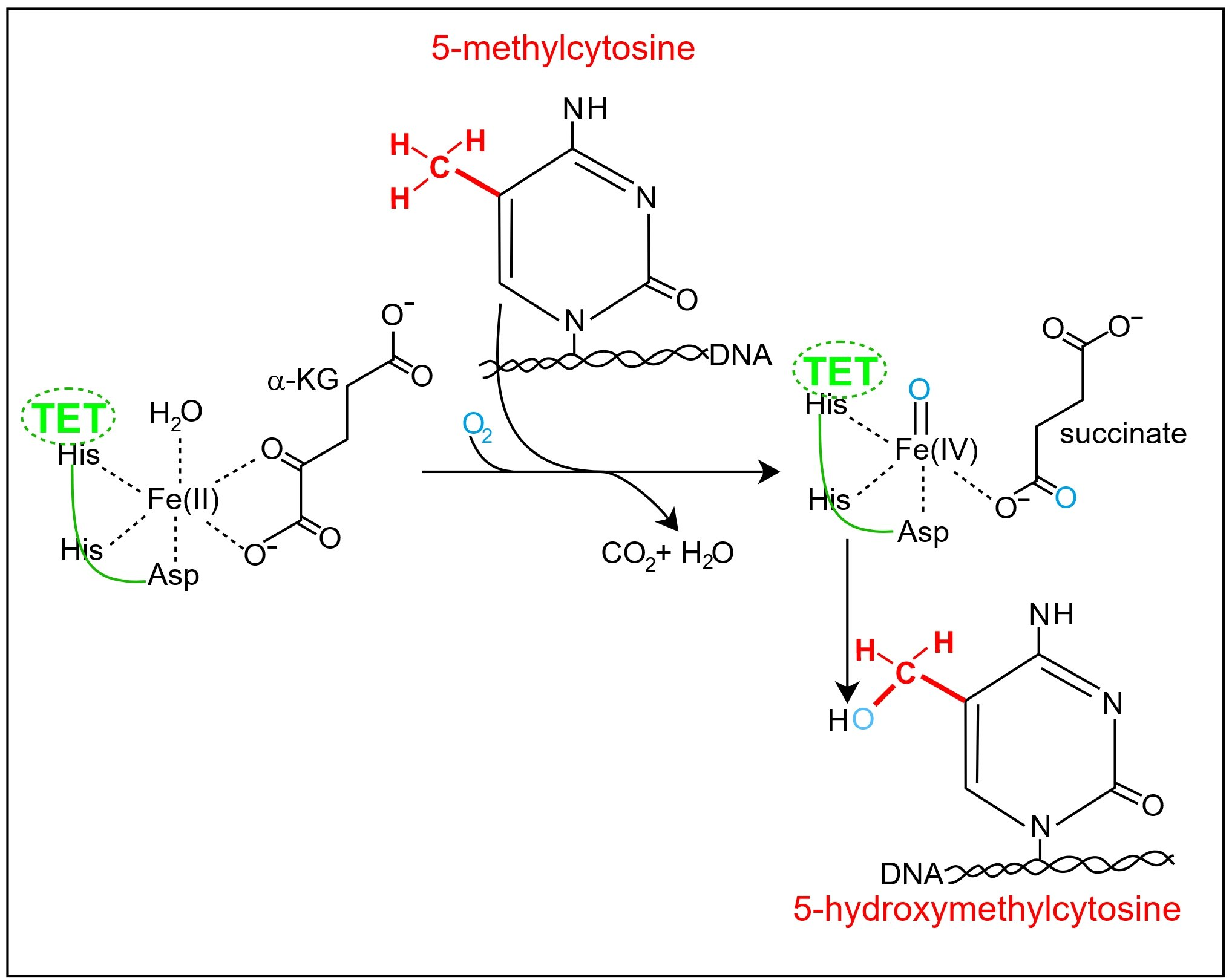 TET enzymes are dioxygenases in the family of alpha-ketoglutarate-dependent hydroxylases. A TET enzyme is an alpha-ketoglutarate (α-KG) dependent dioxygenase that catalyses an oxidation reaction by incorporating a single oxygen atom from molecular oxygen (O2) into its substrate, 5-methylcytosine (5mC). This conversion is coupled with the oxidation of the cosubstrate α-KG into succinate and carbon dioxide.